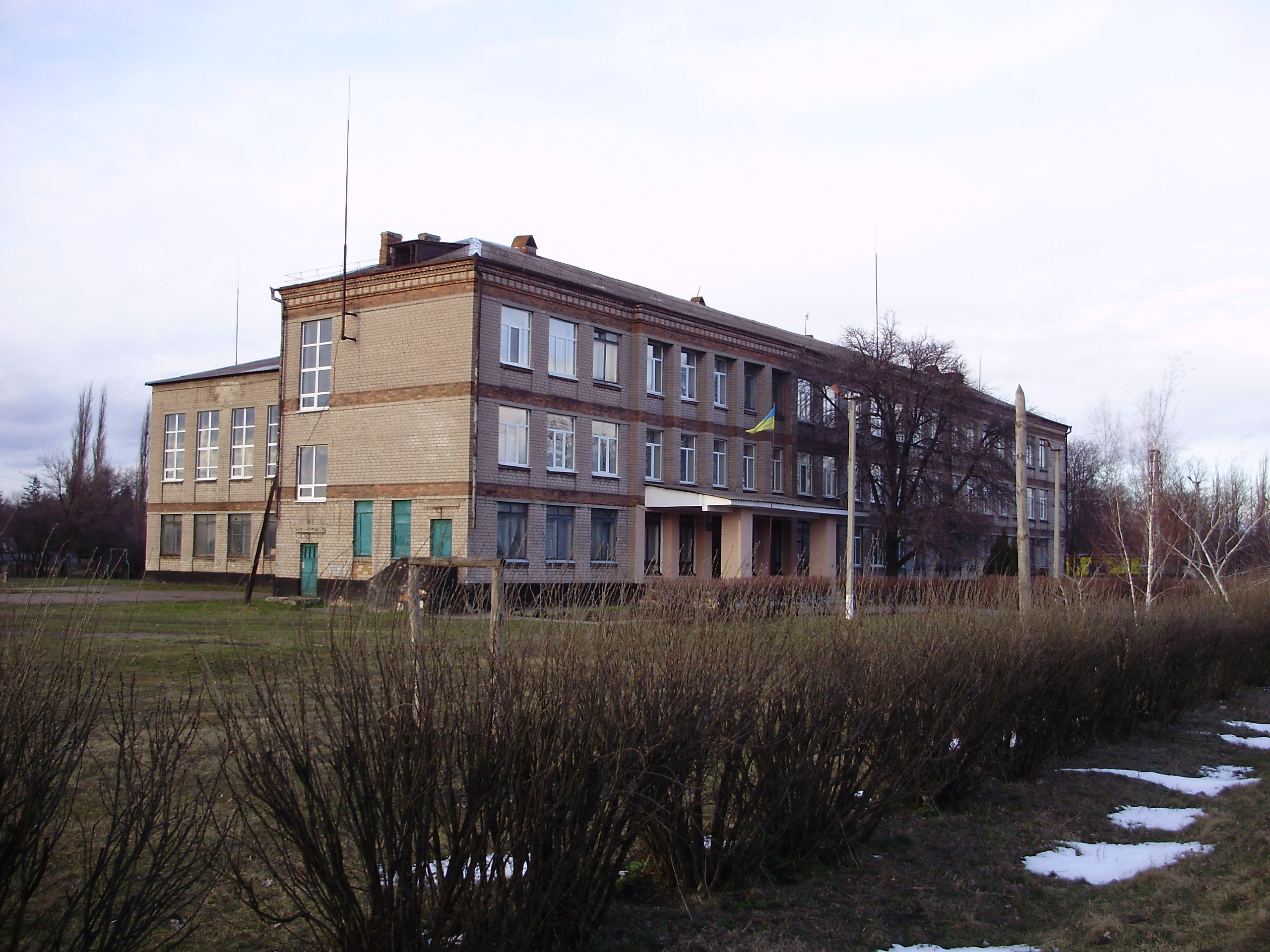 Kurilovka secondary school. Petrykivka Raion, Dnipropetrovsk Oblast.